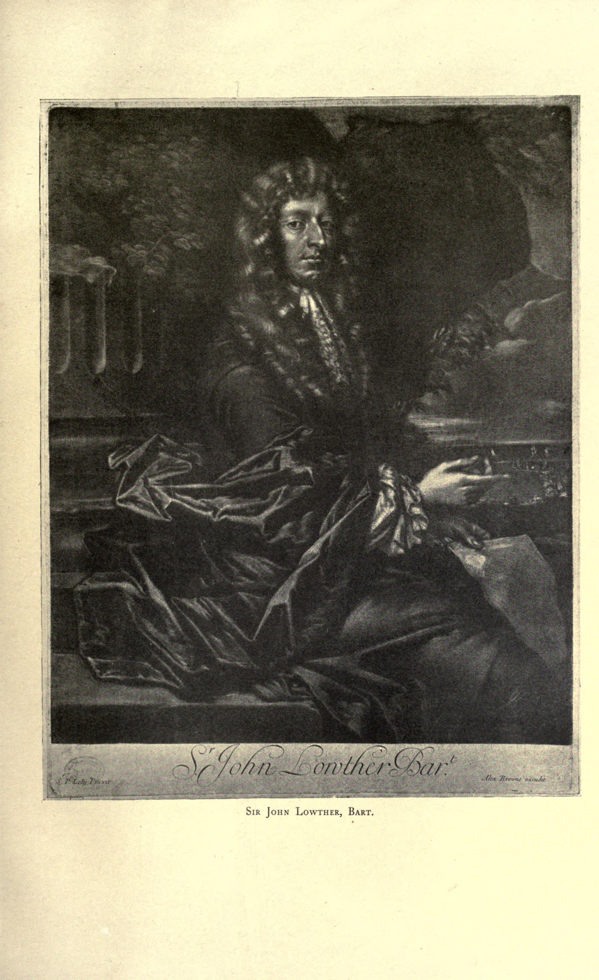 The Victoria history of the county of Cumberland. [Edited by James Wilson.]